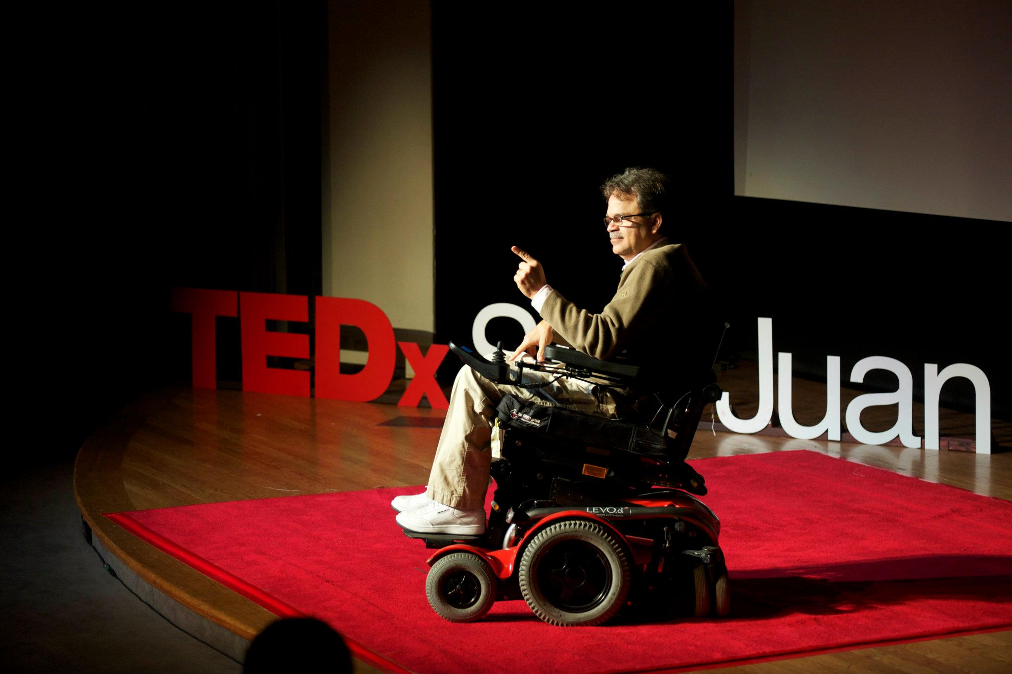 Puerto Rican Screenwriter, Film Director, Film Producer, Entrepreneur and Philanthropist Noel Quiñones on stage at the first TEDxSanJuan conference on December 9, 2011 at the Puerto Rican Museum of Art